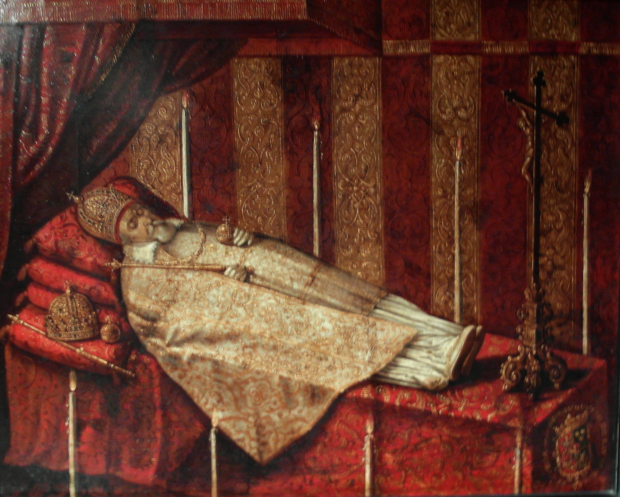 Sigismund III Vasa on a bed of State, 1632